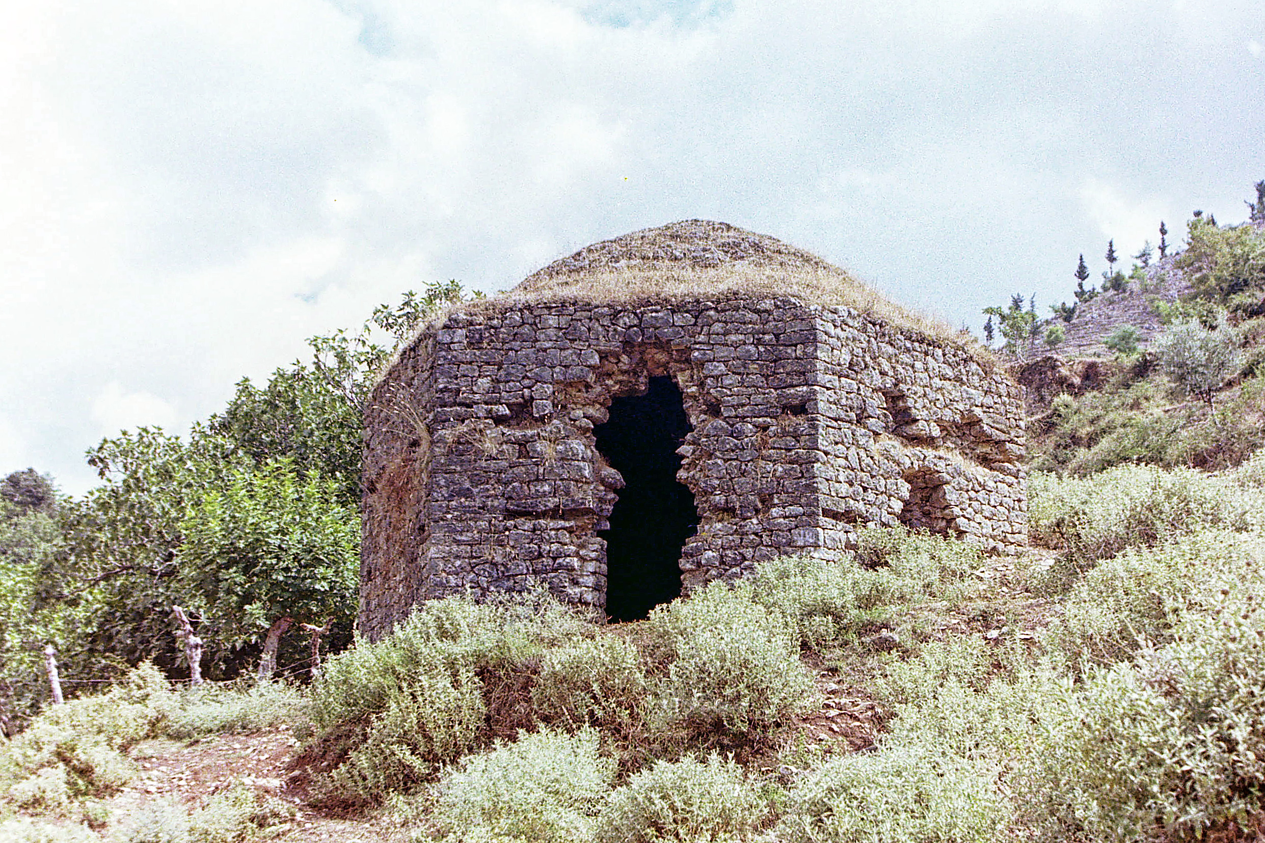 A derelict Bektashi tekke near Delvinë in 1995